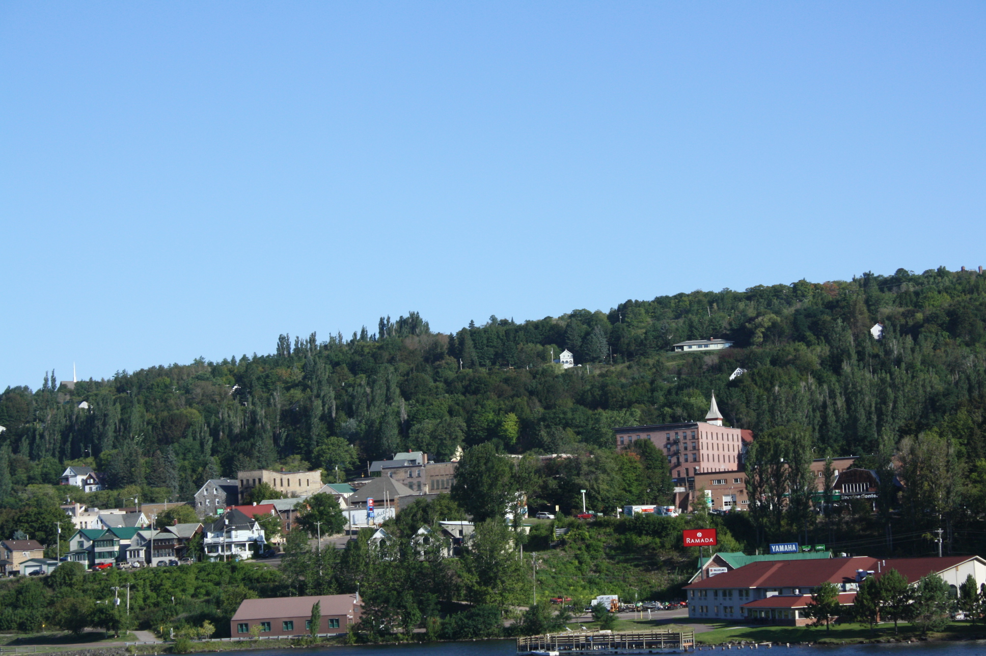 A panorama of Hancock, Michigan from across the water in Houghton from M-26 (Michigan highway).